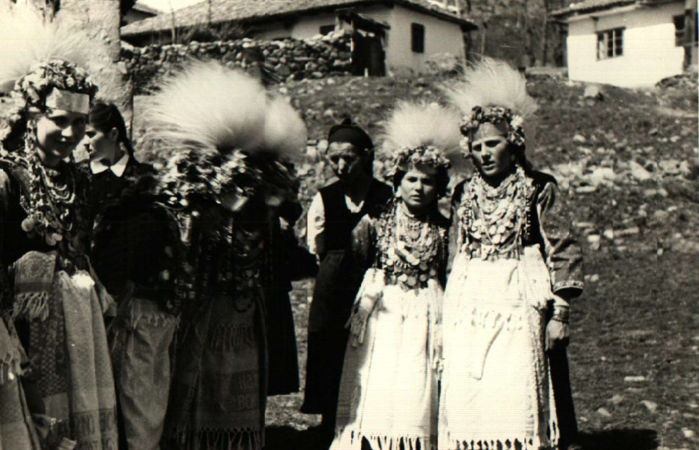 Lazarki from Zheleznitsa, Bulgaria